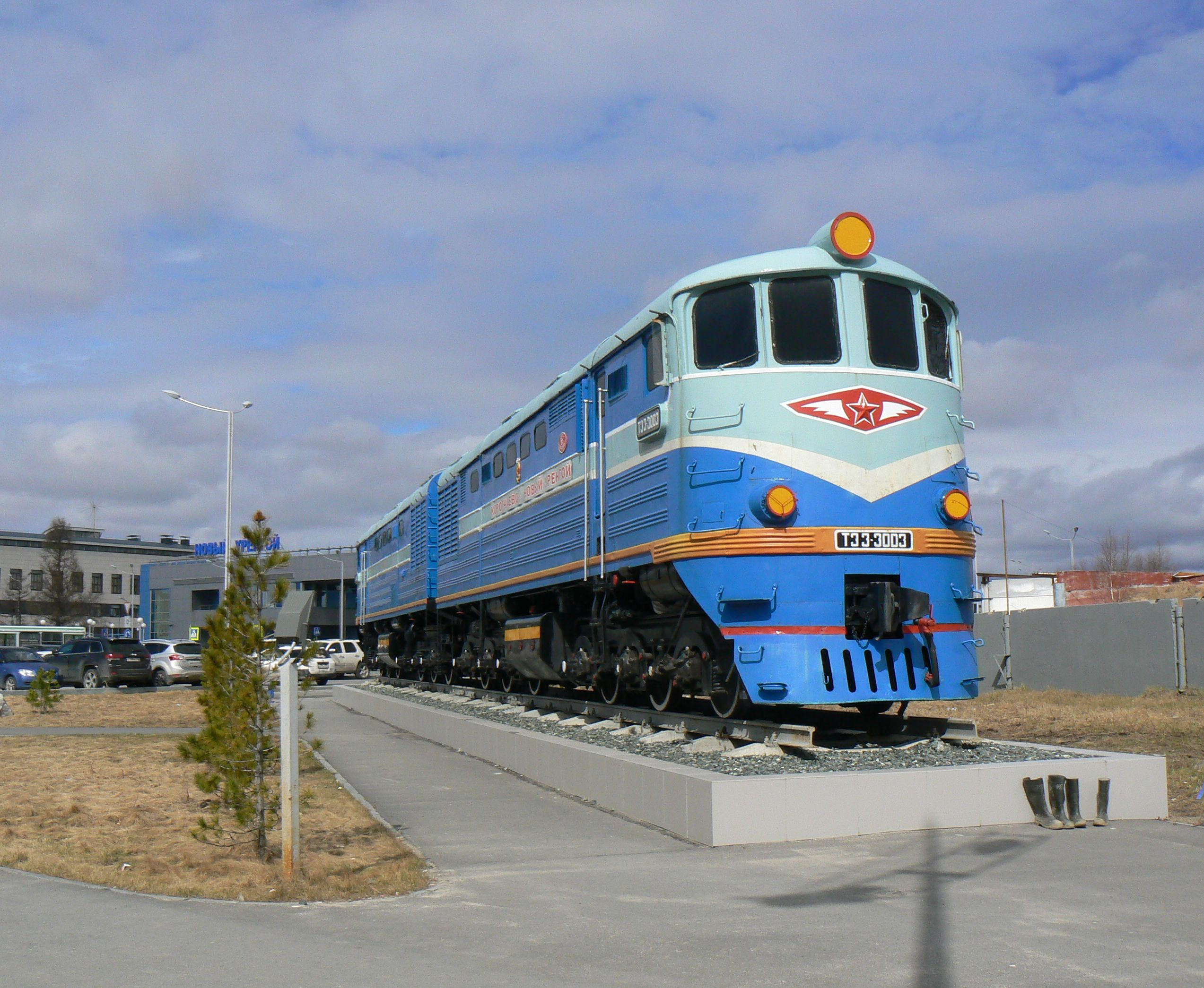 Novy Urengoy, Yamalo-Nenets Autonomous Okrug, Russia. A monument on the railway station.